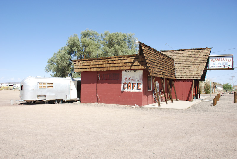 Bagdad Café at Newberry Springs, Mojave Desert, California. Originally established as Sidewinder Café, the restaurant changed its name after the motion picture Bagdad Café was filmed here.